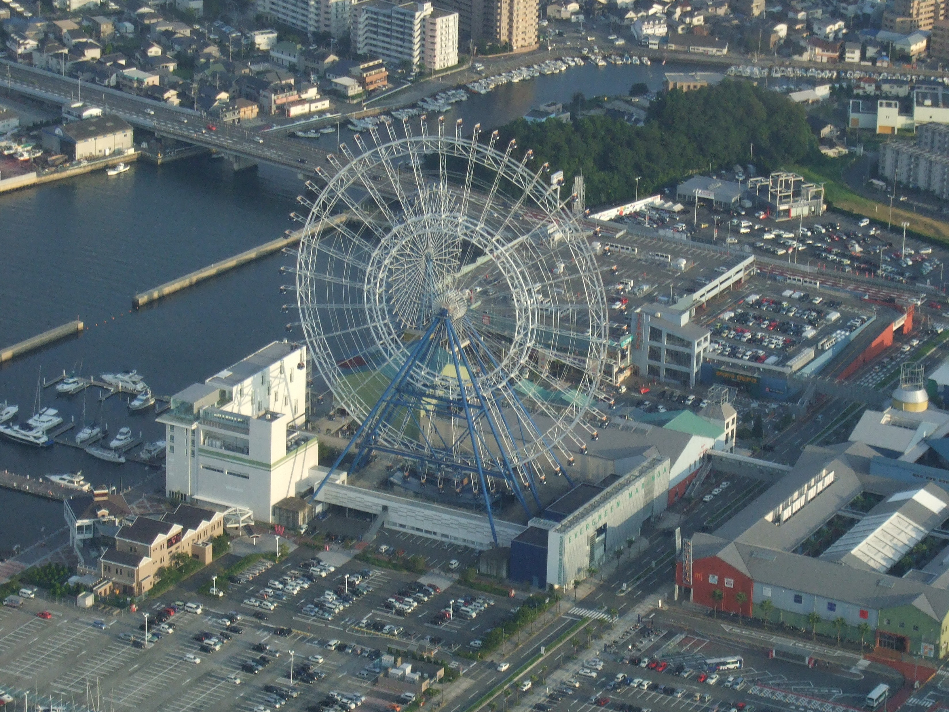 Sky Dream Fukuoka taken from JSDF Helicopter by uploader R34SkylineGT-R V-SpecⅡNür.